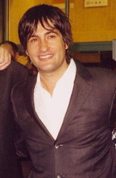 Joshua Michael Stern at the premiere of Neverwas, Toronto Film Festival 2005